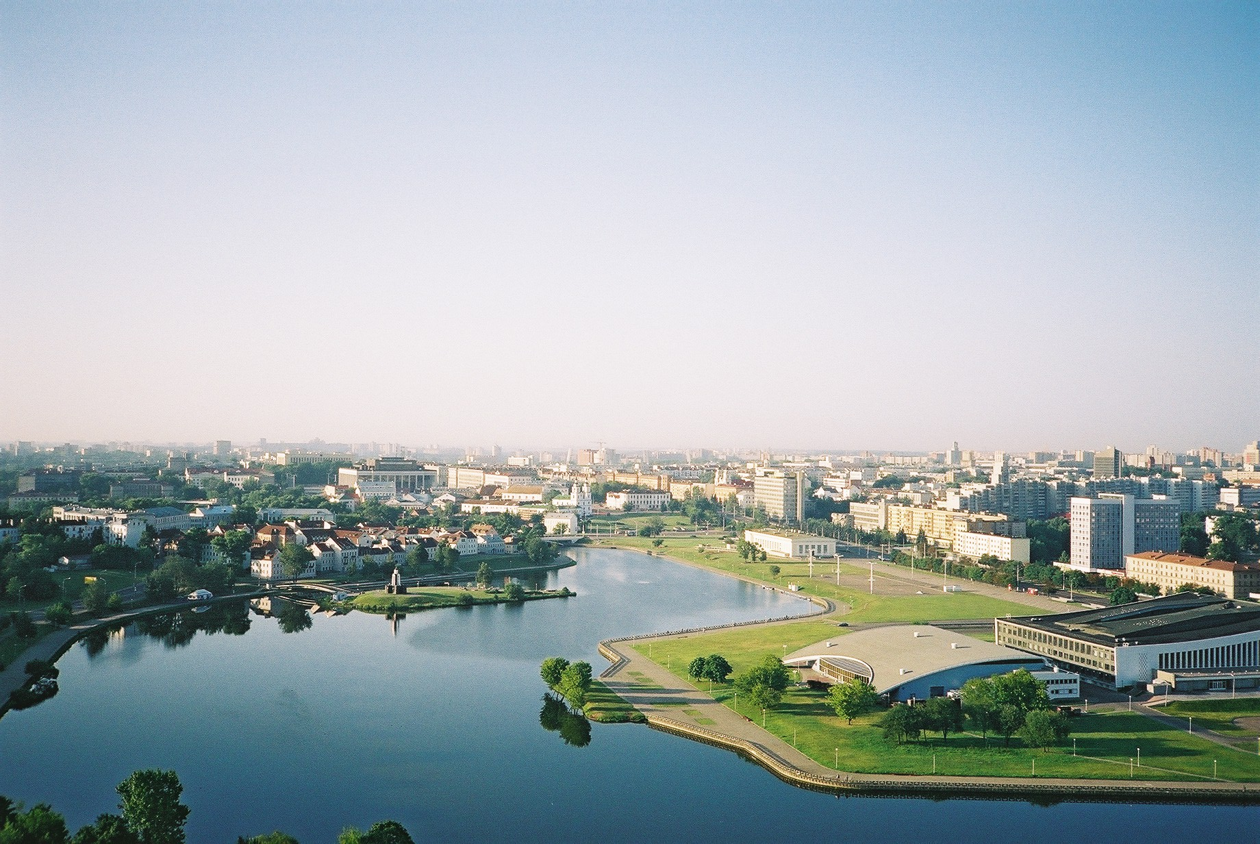 View of Minsk